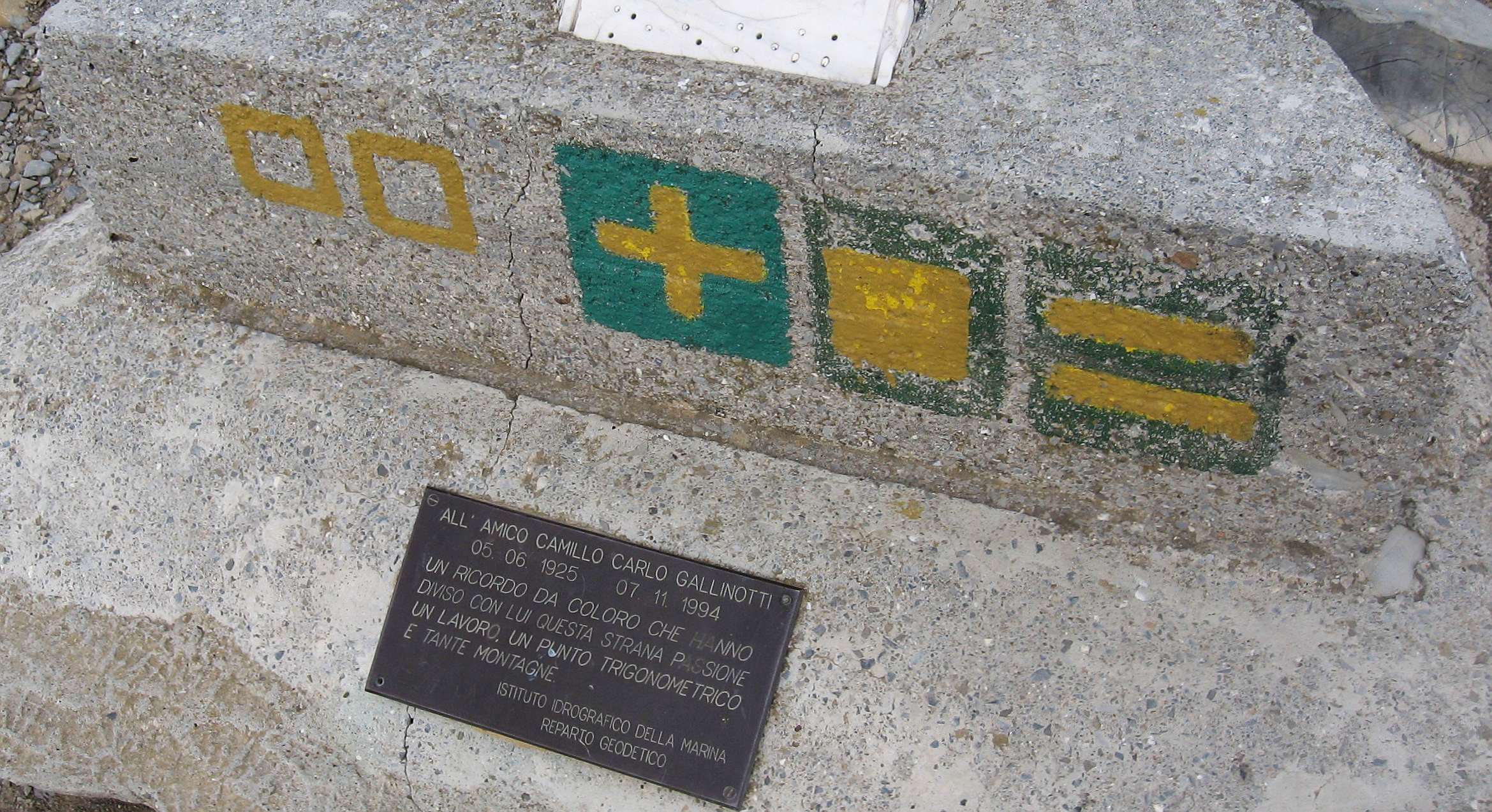 FIE waymarks on Monte Antola trig point (Ligurian Apennine, Italy)